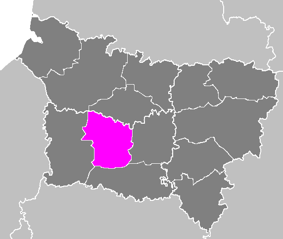 Maps of arrondissements and cantons of France: Arrondissement de Clermont.PNG